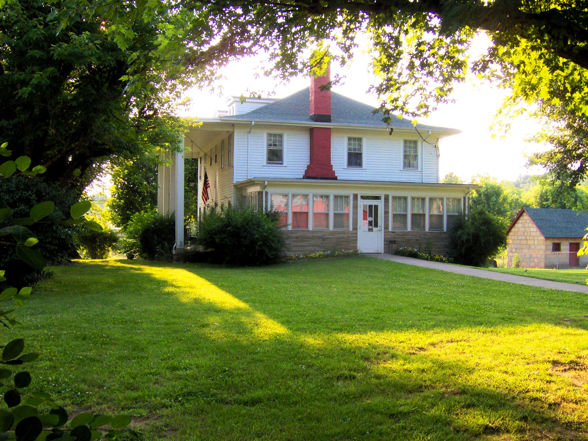 Sergeant Alvin York's house at the Sgt. Alvin C. York State Historic Park in Pall Mall, in the U.S. state of Tennessee. The house was completed in 1922 with funds raised by the Rotary Club of Nashville. Coordinates: 36.54223 -84.96032